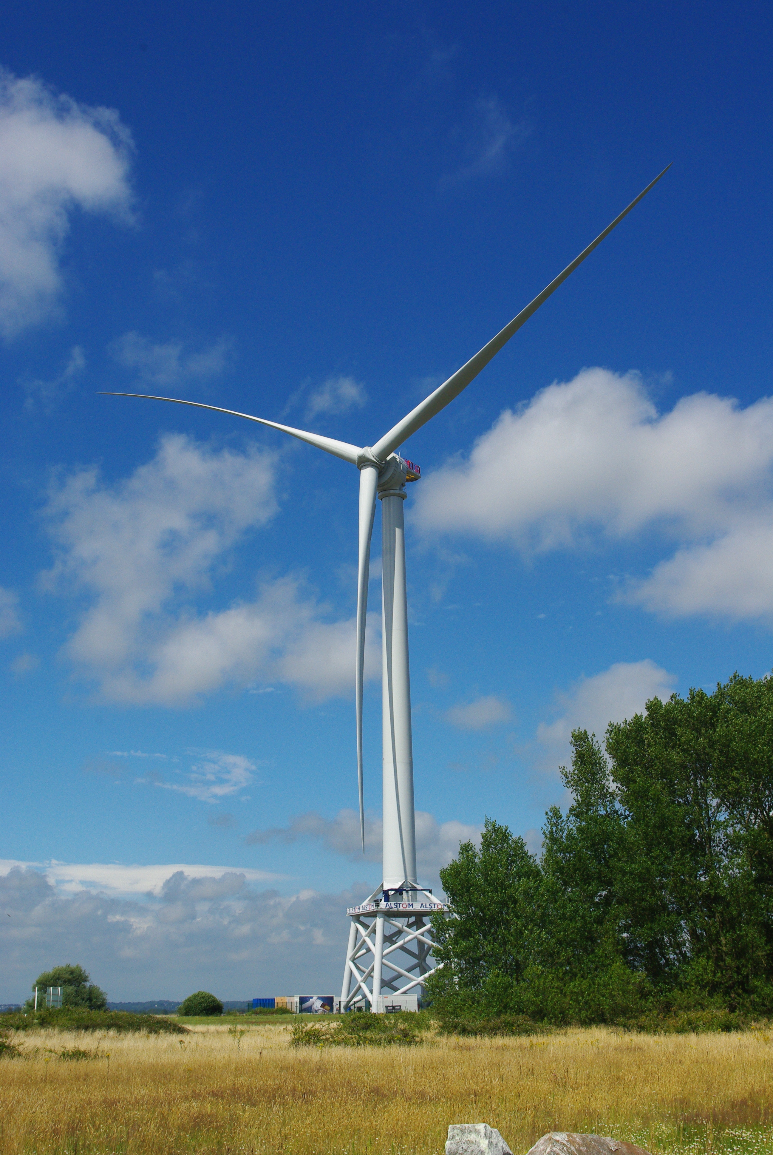 Haliade wind-turbine in Le Carnet, Loire-Atlantique